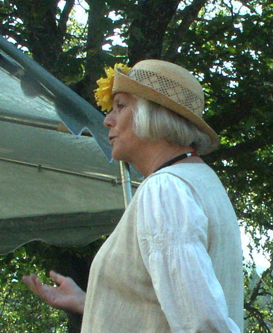 Eva Goës at a memorial gathering in Härnösand, 2011-07-30.